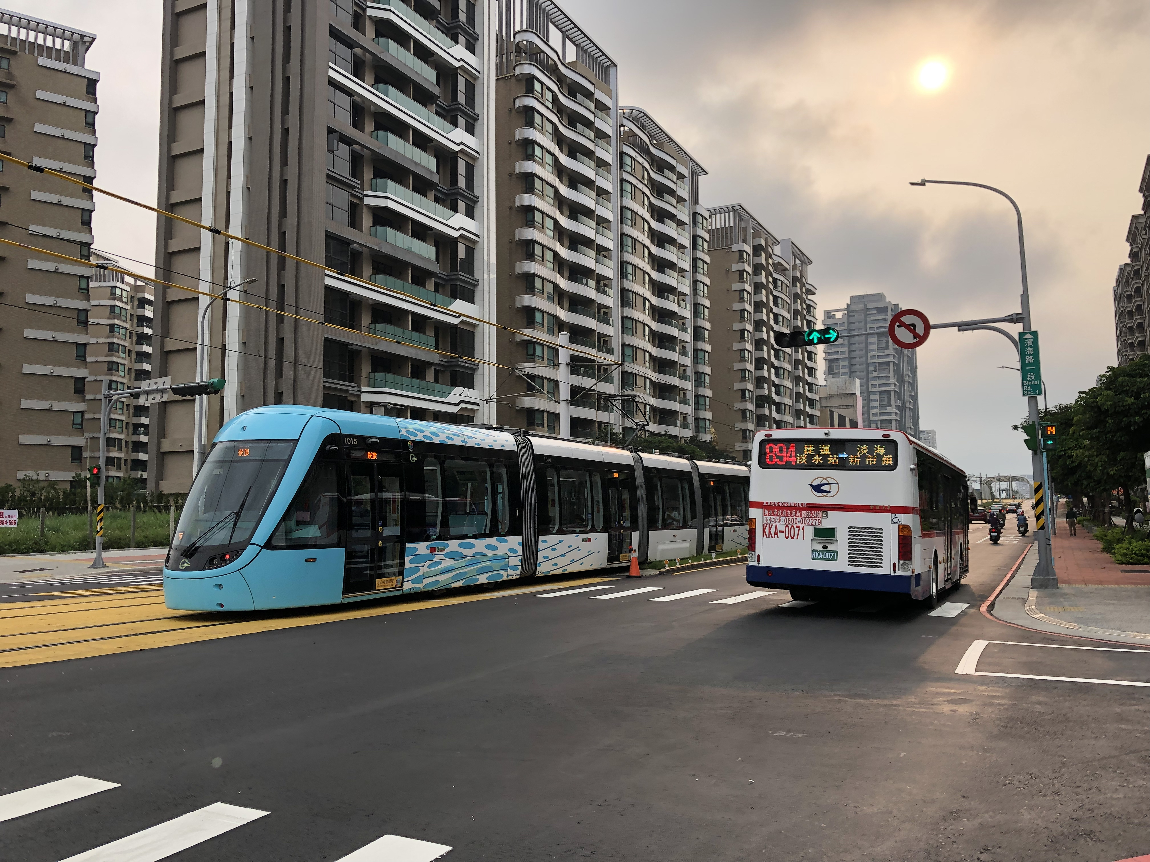 Danhai LRT tram next to a bus in the street-running section